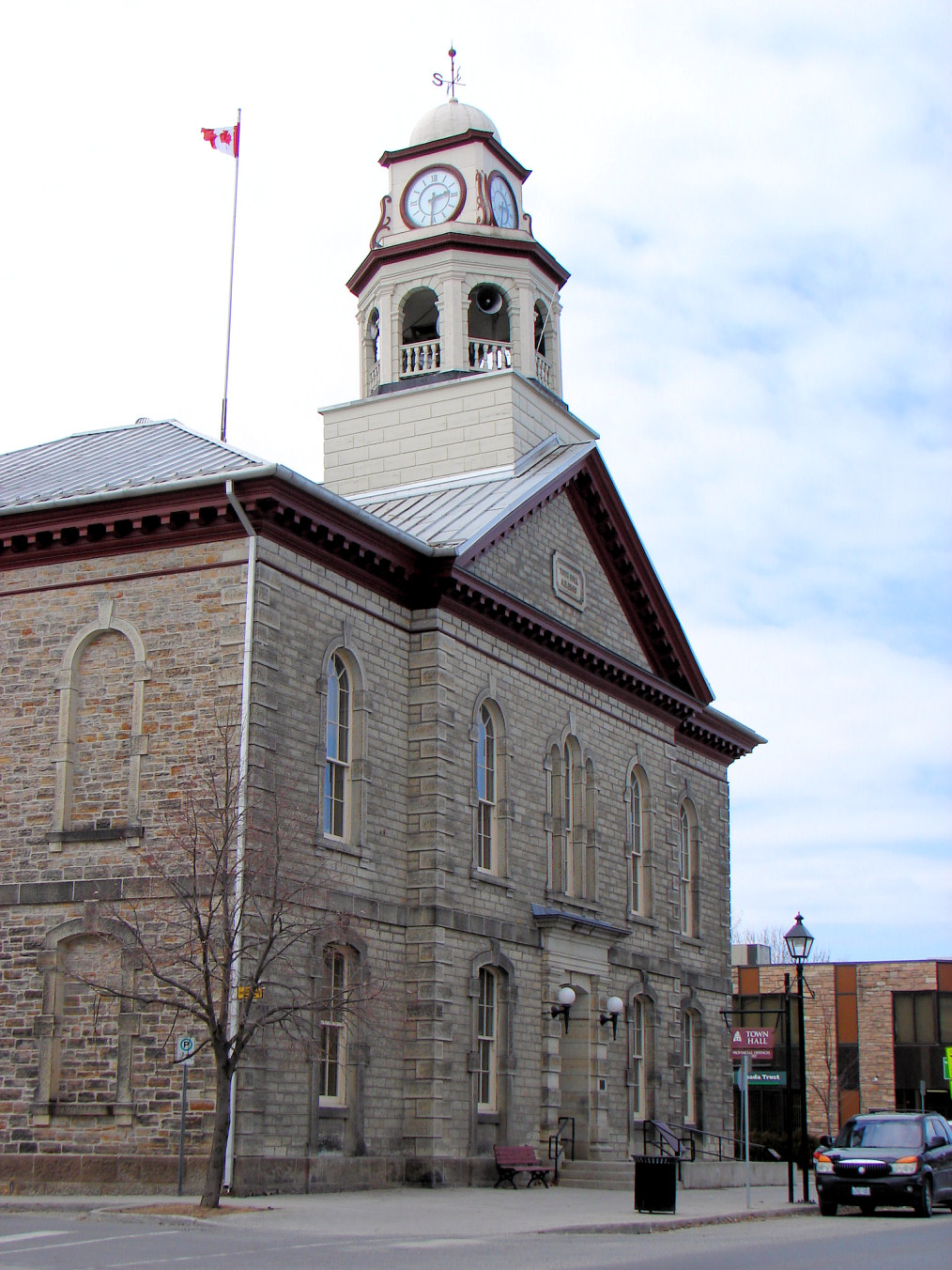 Perth, Ontario, Canada